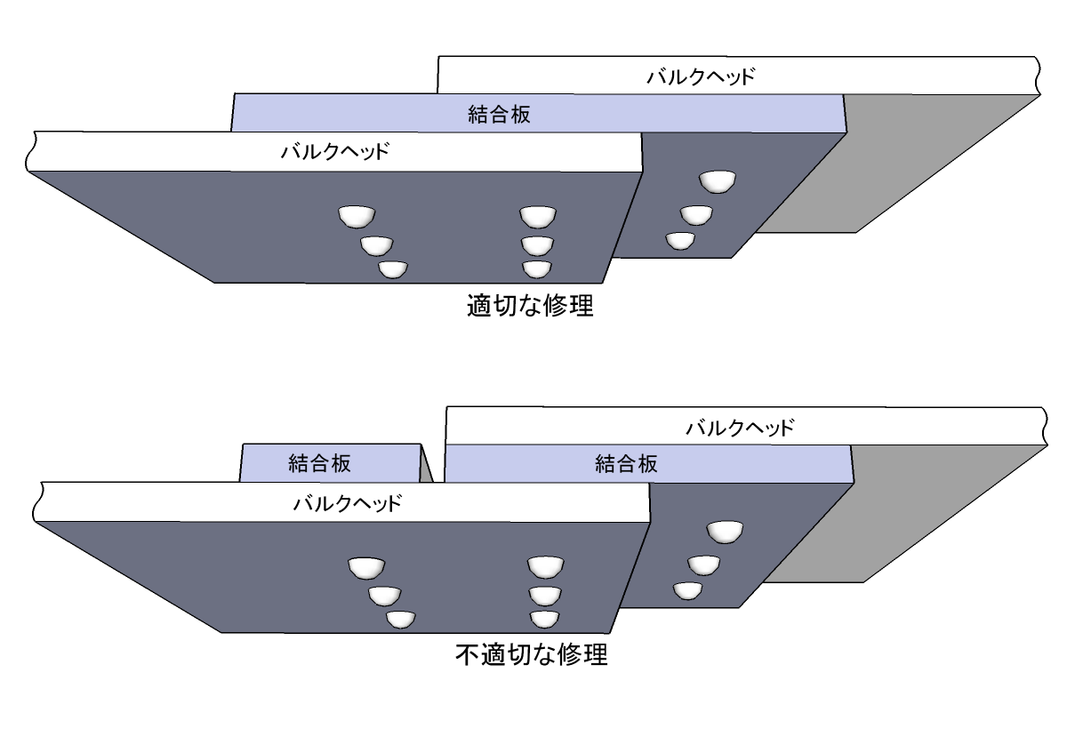 Diagram of the incorrect repair - JAL123 (Japanese)